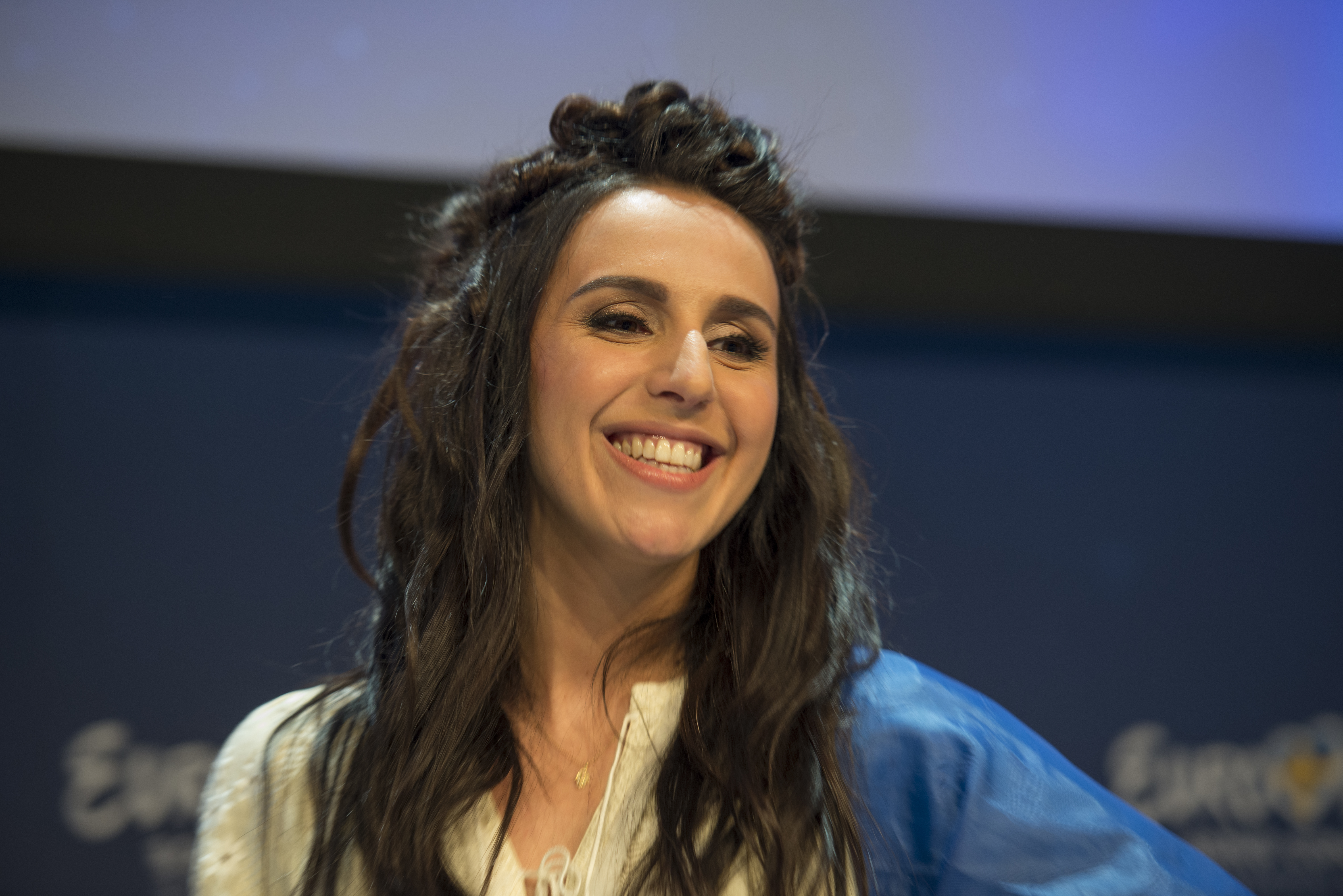 Jamala at a Meet & Greet during the Eurovision Song Contest 2016 in Stockholm. (Help translate this text)